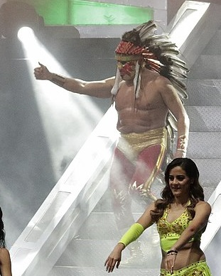 Viernes 30 de noviembre de 2018Arena México, ceremonia de develación de la placa conmemorativa por el reciente decreto de la Lucha Libre como Patrimonio Cultural Intangible de la Ciudad de México, estuvieron presentes autoridades del Consejo Mundial de Lucha Libre, y autoridades del gobierno de la CMDX, entre ellos Gabriela López Torres, coordinadora de Patrimonio Histórico Artístico y Cultural de la Secretaría de Cultura de la CDMX, además de invitados especiales.Fotografía: Tania Victoria/ Secretaría de Cultura CDMX